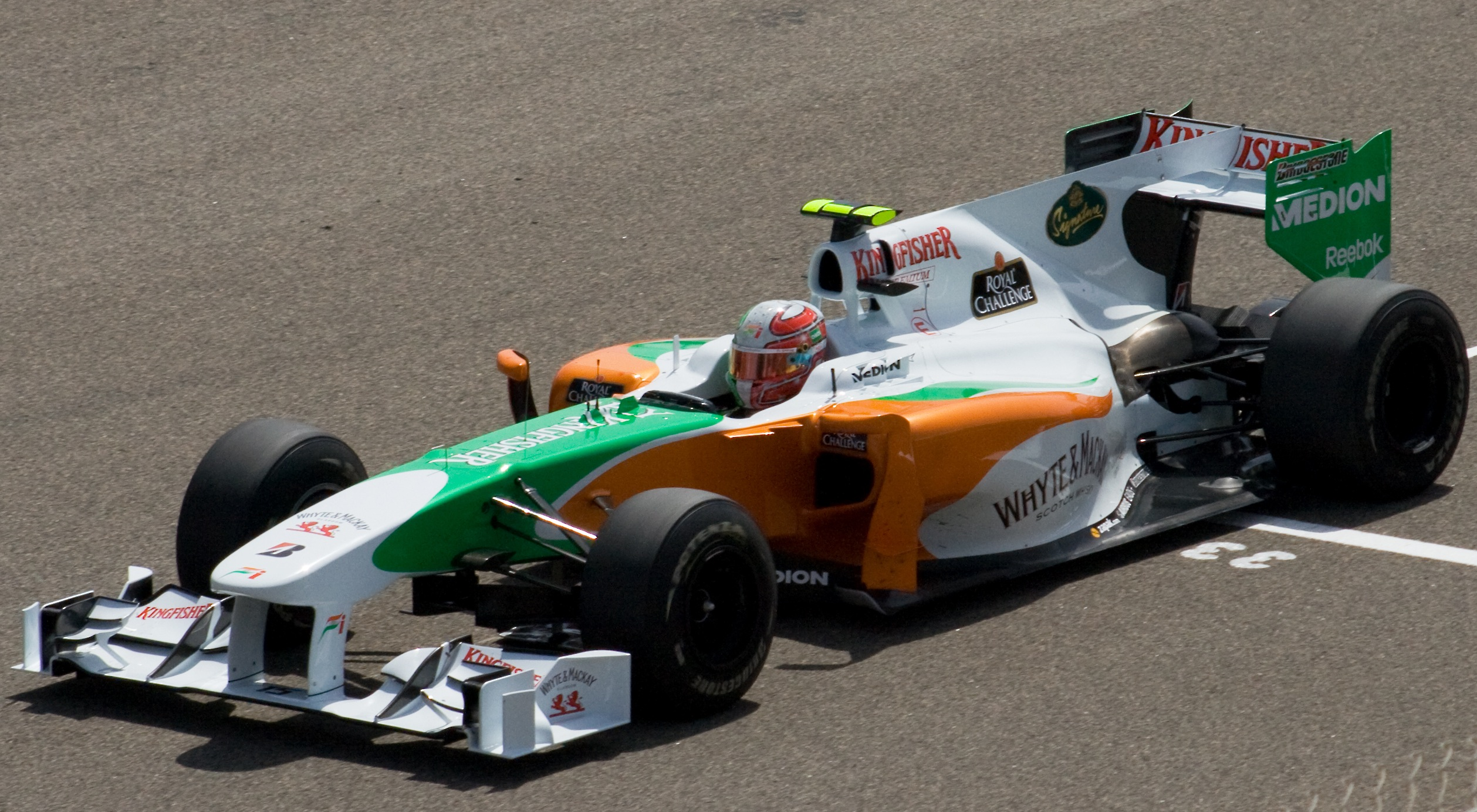 Liuzzi driving during a Friday practice session.